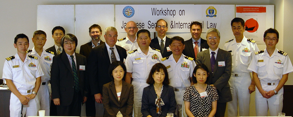 Many researchers attended Japanese Security and International Law at the Command and Staff College, Maritime Self-Defense Force in Meguro Ward, Tōkyō Metropolis on September 15, 2015.